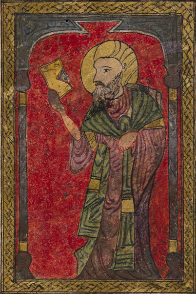 Page from the latter 3 books of De Materia Medica Folio 2b from Shelfmark: MS. Arab. d.138 This is a derivative work of File:Portrait of Dioscorides from De Materia Medica.jpg. The original has been rotated, sheared and cropped to produce this version.